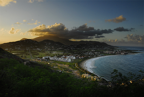 from the top of the hill looking down on Frigate Bay